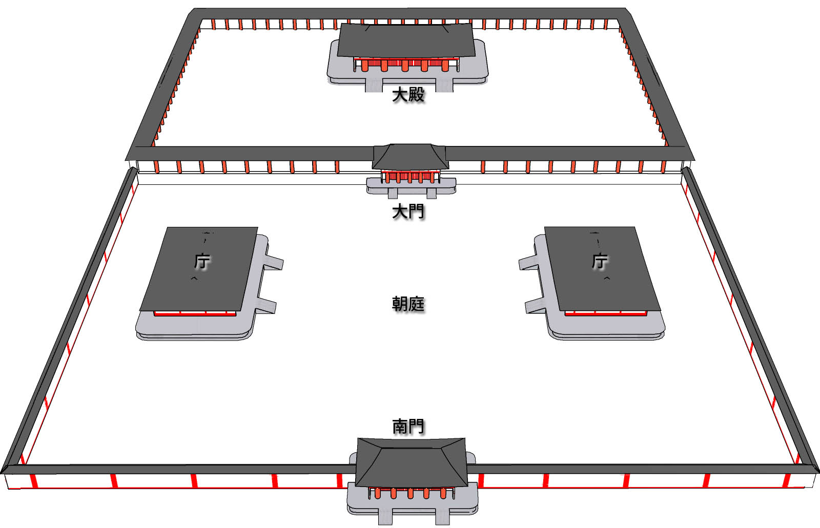 Plan of Oharida Palace, 小墾田宮見取図